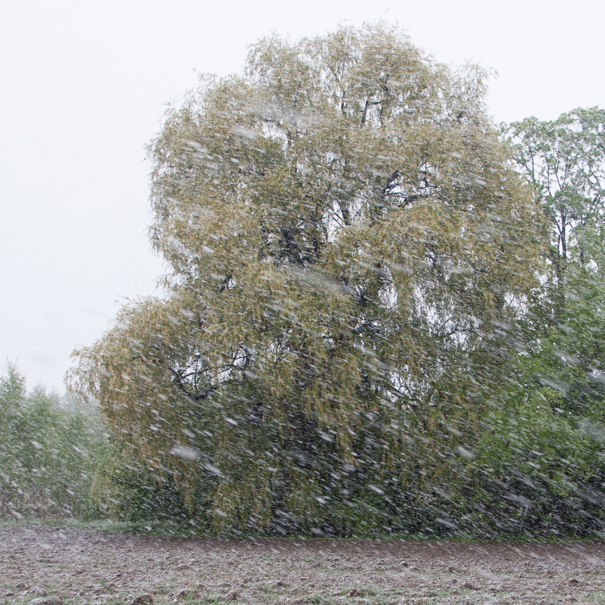 The crack willow, Lodz(Poland)